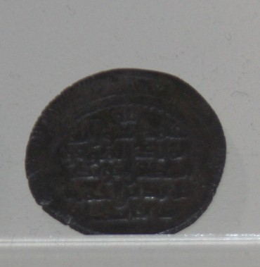 Silver dirhams of Shirvanshah II Yazid